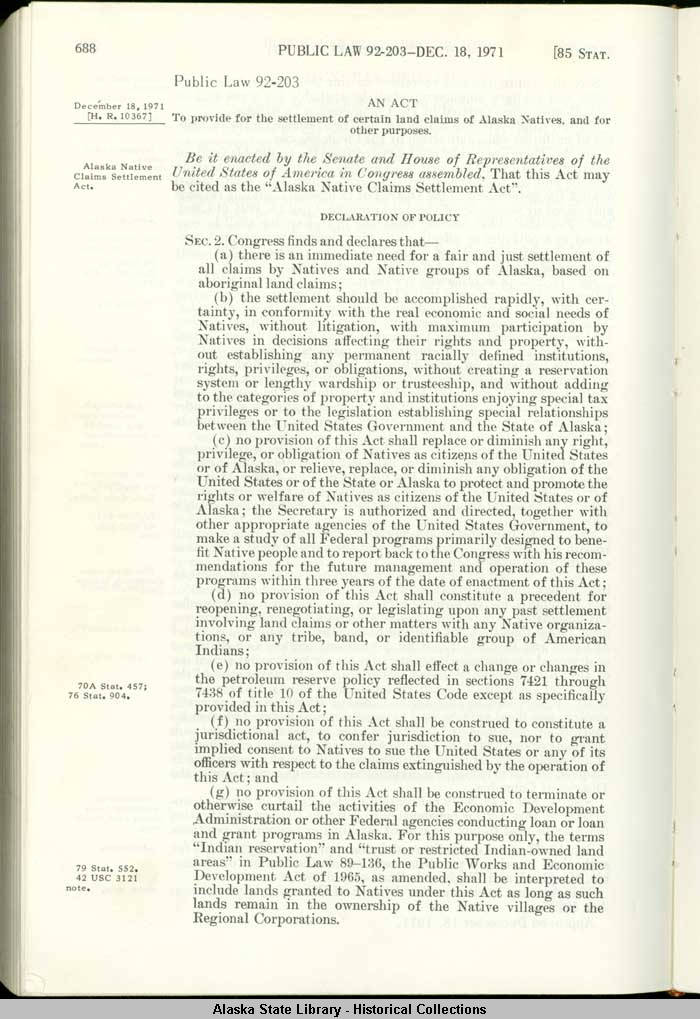 The act given to the House of Representatives & Congress